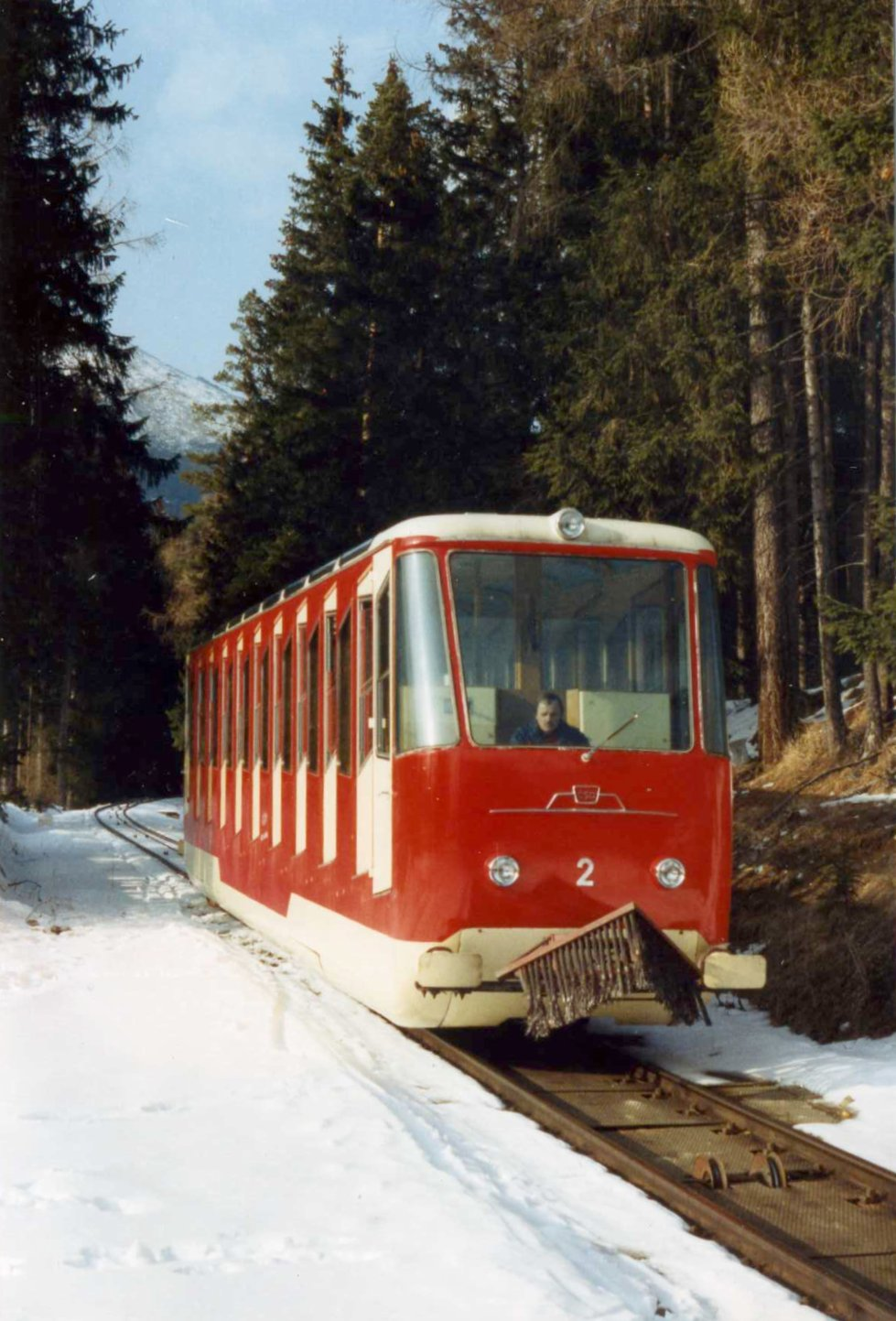 Starý Smokovec–Hrebienok funicular in High Tatras, Slovakia